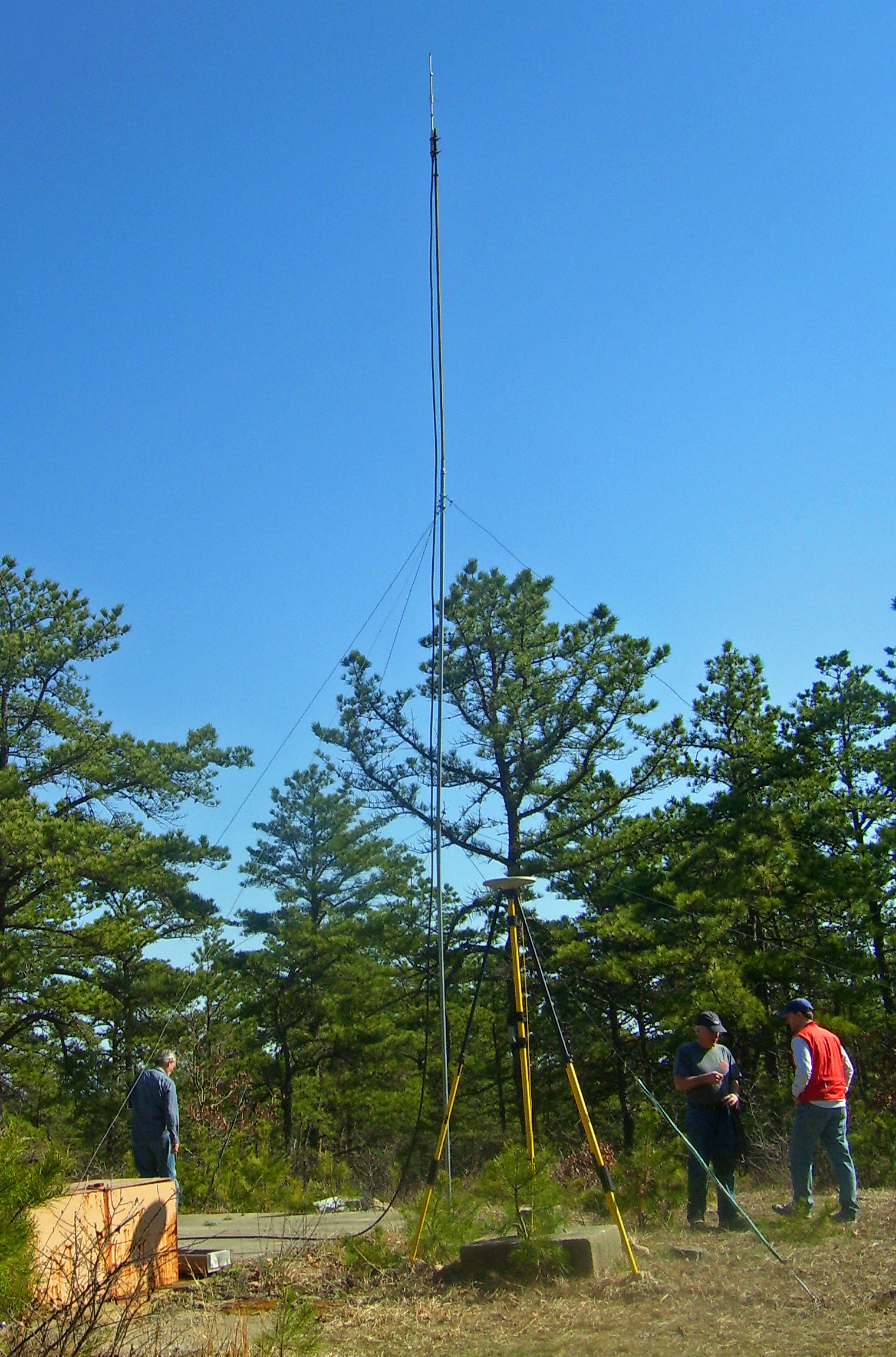 Summit of Pine Hill, on Massachusetts Military Reservation in Bourne, MA, USA, highest point of Barnstable County and thus Cape Cod at 306 feet (101 m) above sea level.